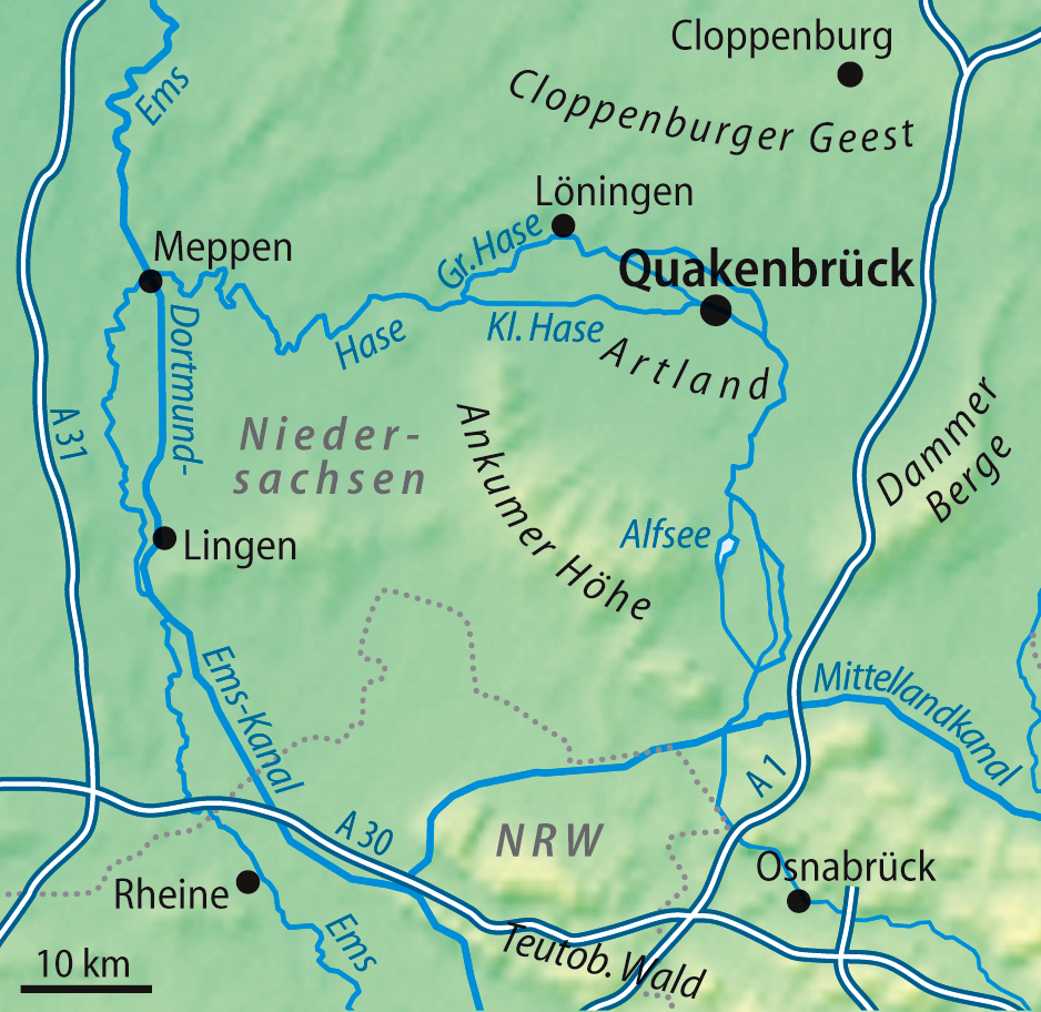 Geographic location of Quakenbrück, Germany